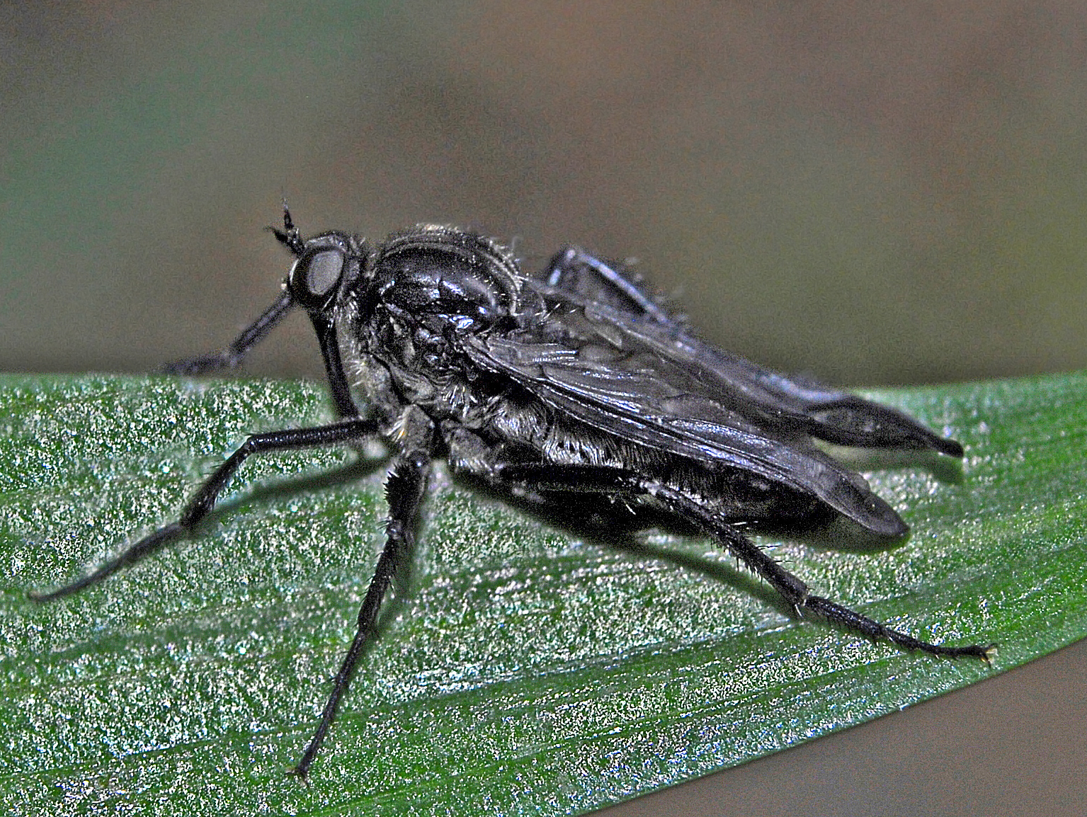 Empis ciliata, female. Capanne di Marcarolo, Alessandria, Italy